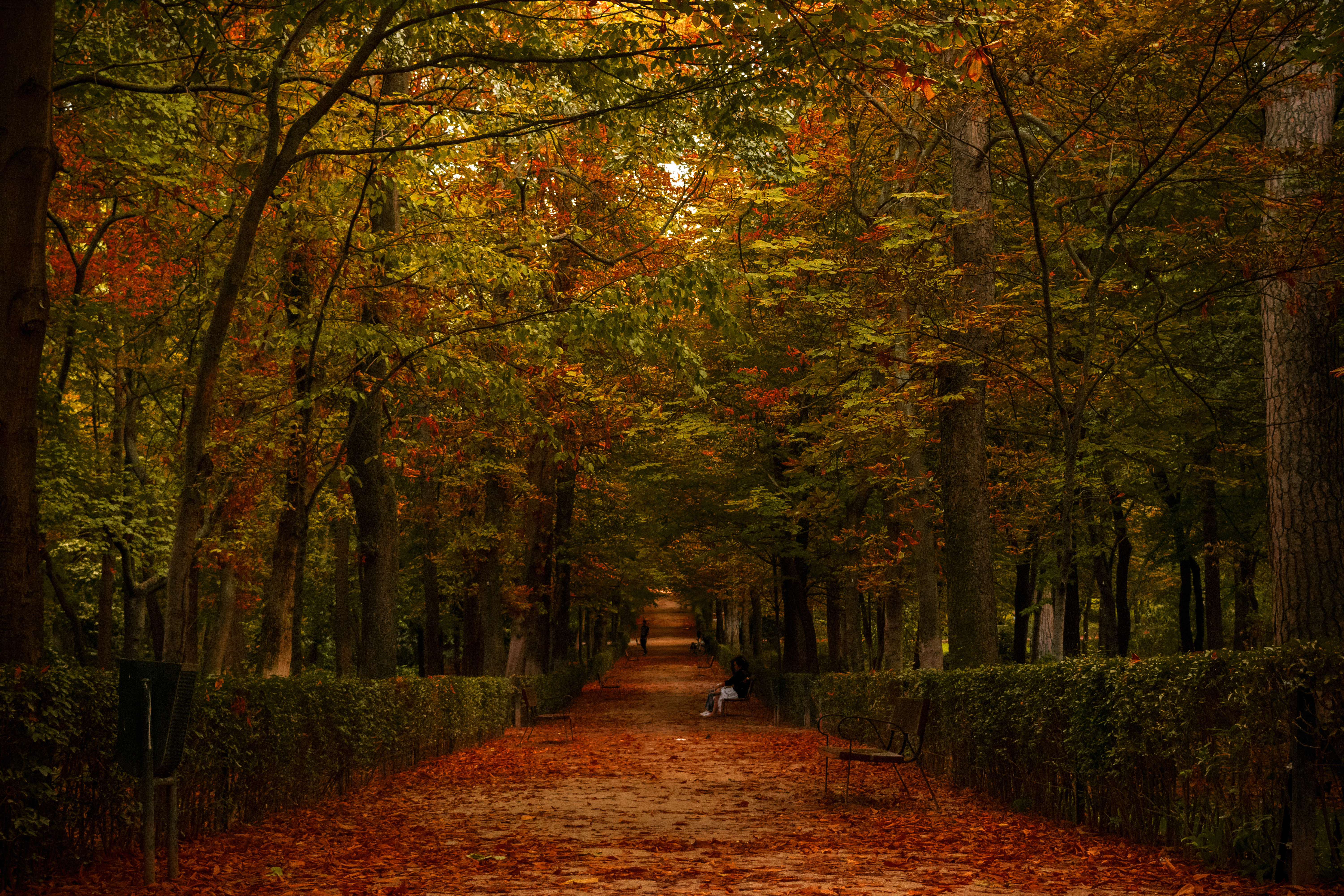 Dark and cold, but vivid and warm.